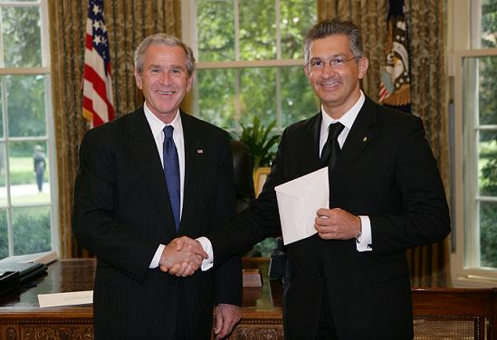 Paolo Rondelli, the first ambassador from San Marino to the United States, presents his credentials to George W. Bush.